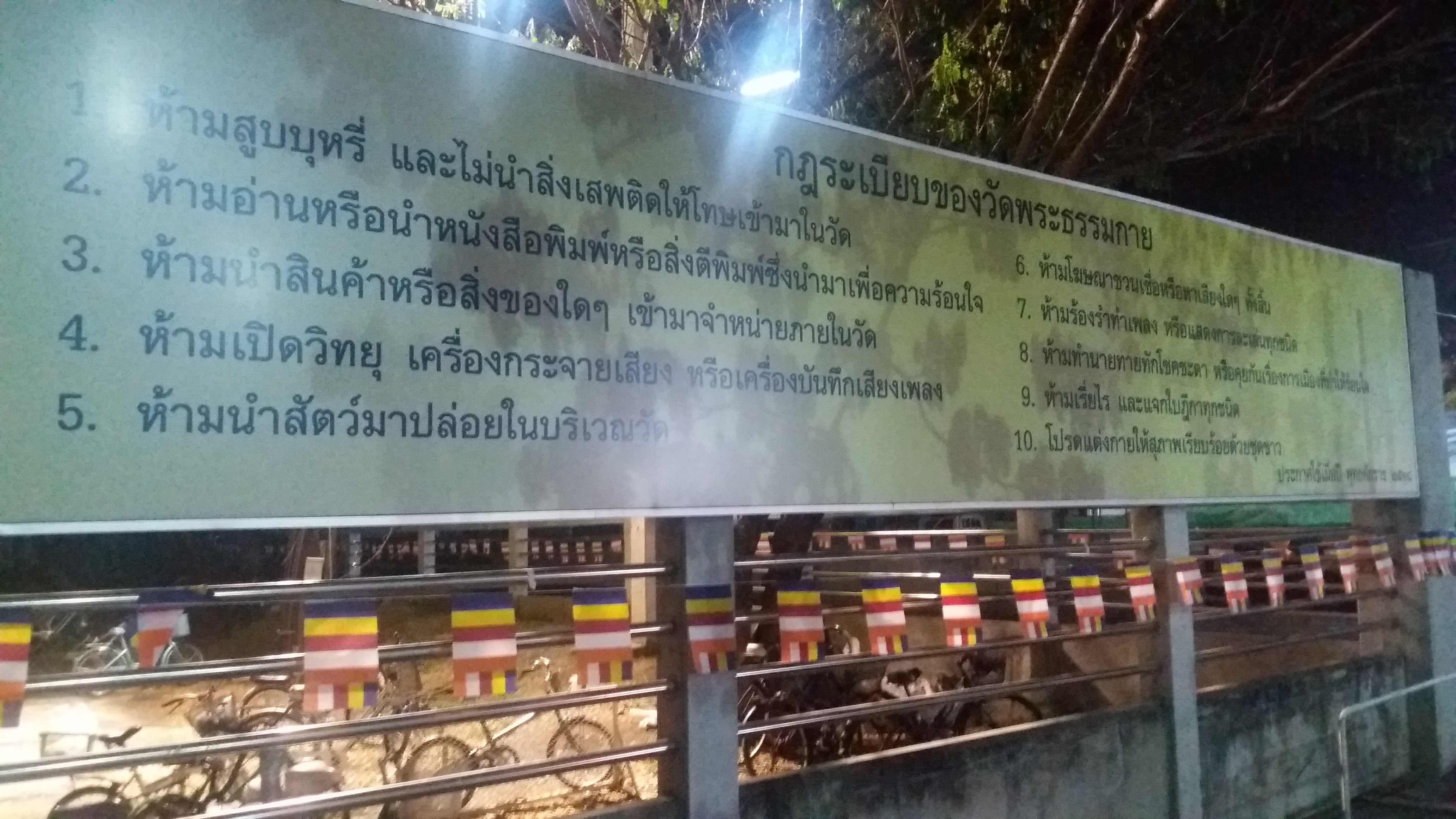 Sign with regulations as issued by Mae chi Chan Khonokyoong